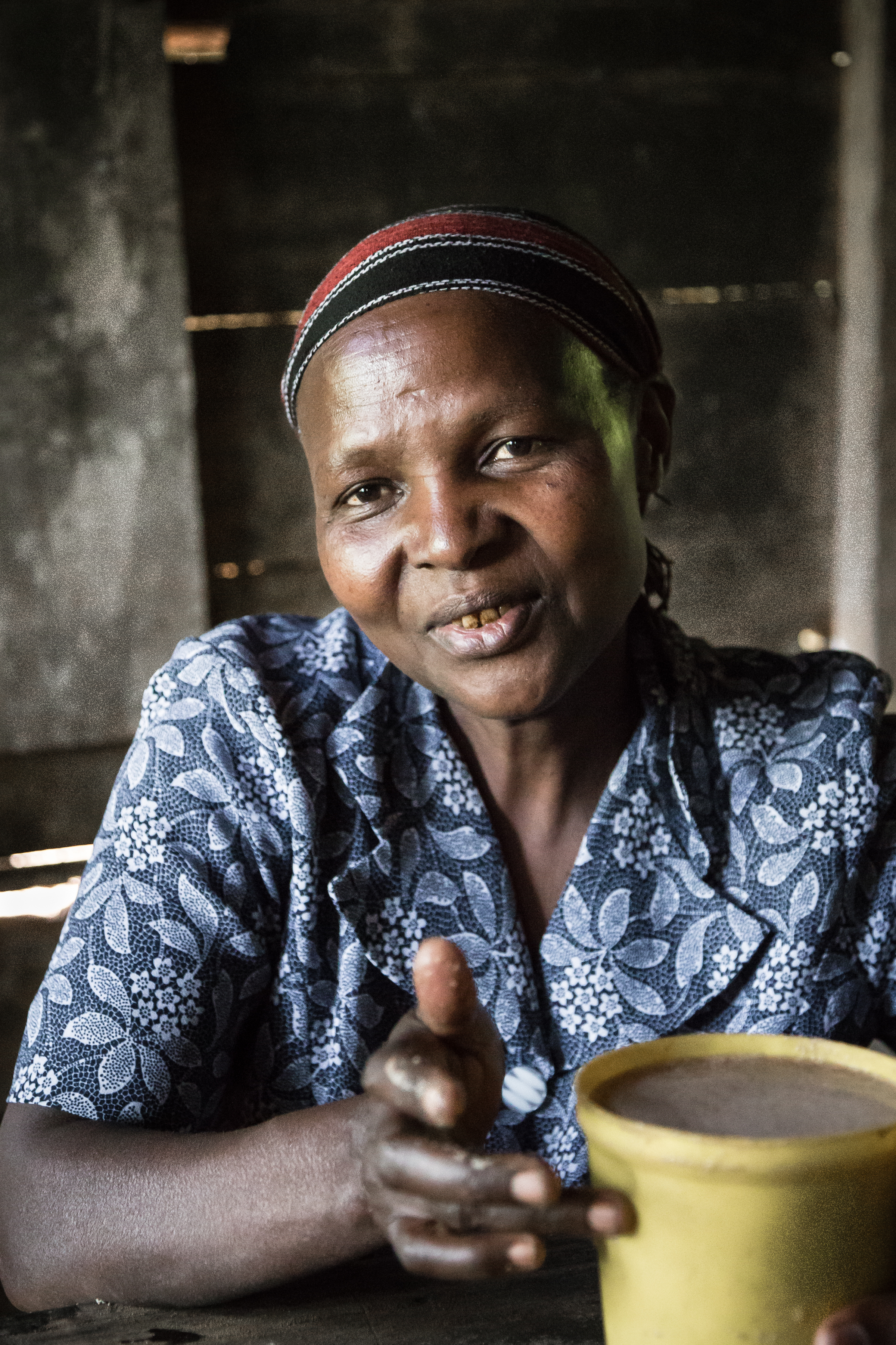 This is an image of "African people at work" from Tanzania